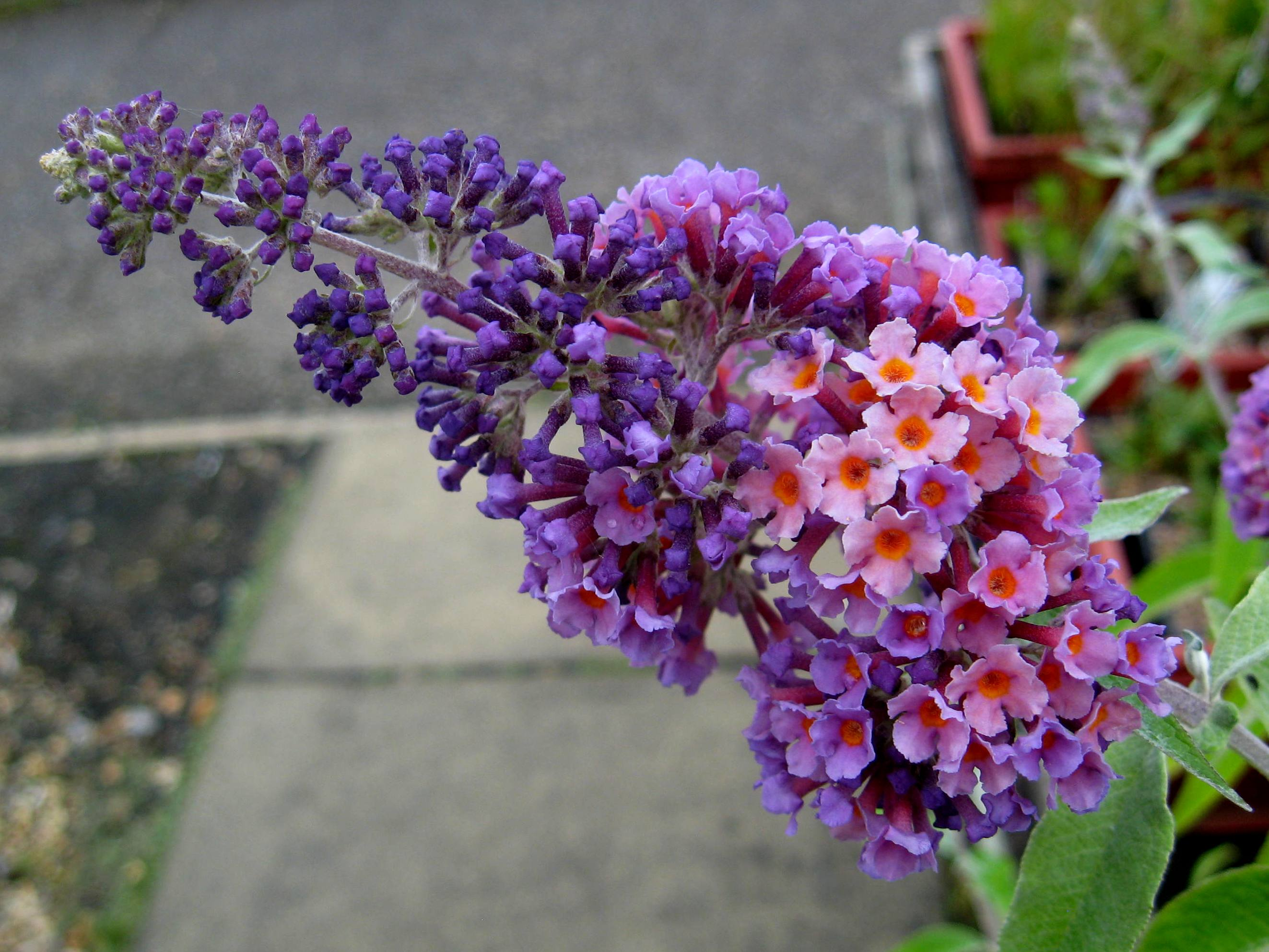 Photo taken at Longstcok Park, UK, August 2012